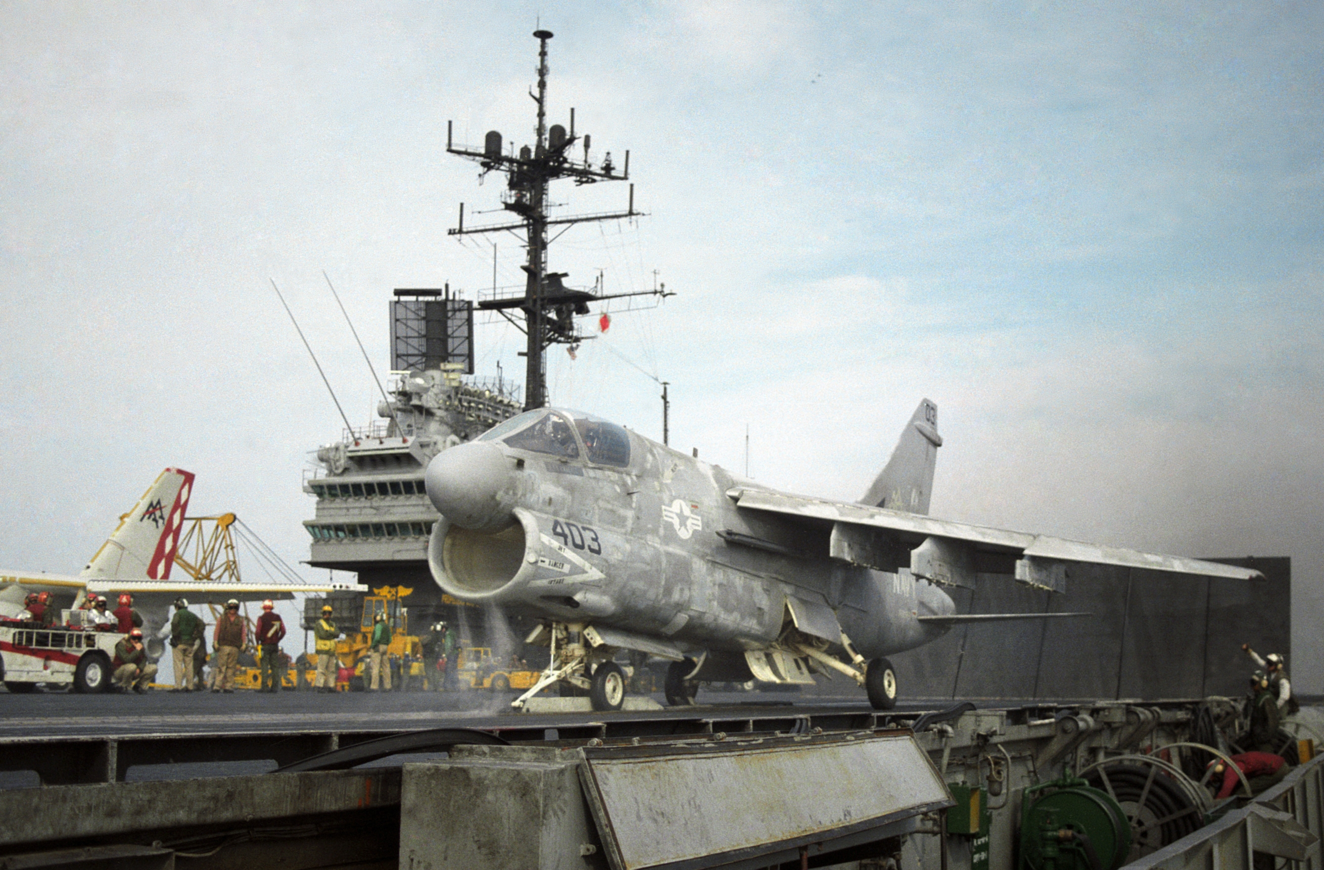 A U.S. Navy LTV A-7E Corsair II from attack squadron VA-81 Sunliners about to launch from the aircraft carrier USS Saratoga (CV-60) on 22 March 1986. VA-81 was assigned to Carrier Air Wing 17 (CVW-17) aboard the Saratoga for a deployment to the Mediterranean Sea from 16 August 1985 to 16 April 1986. On 15 April 1986 Saratoga´s aircraft participated in "Operation El Dorado Canyon", the bombing of Libya.